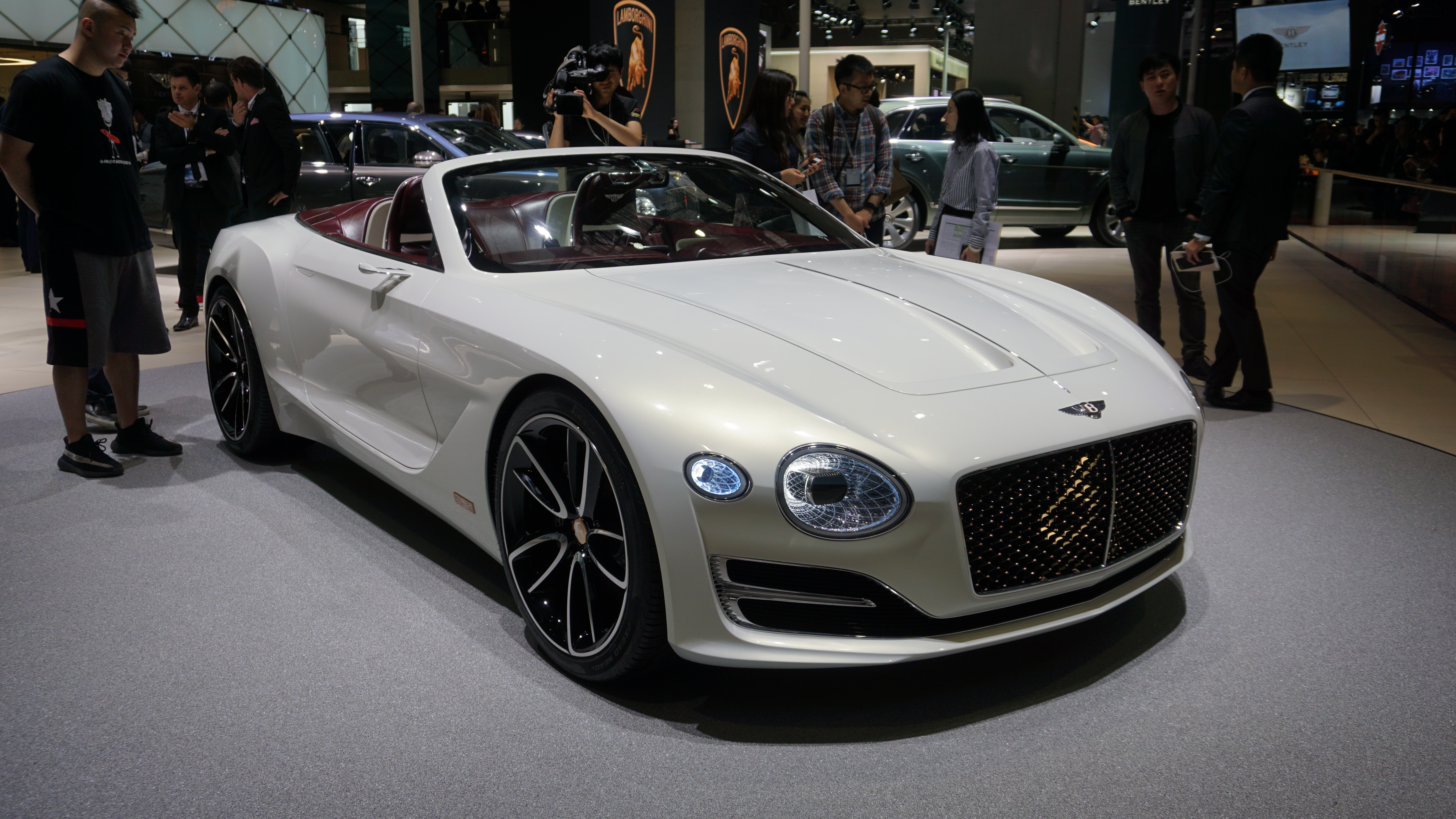 Front view of the Bentley EXP 12 Speed 6e